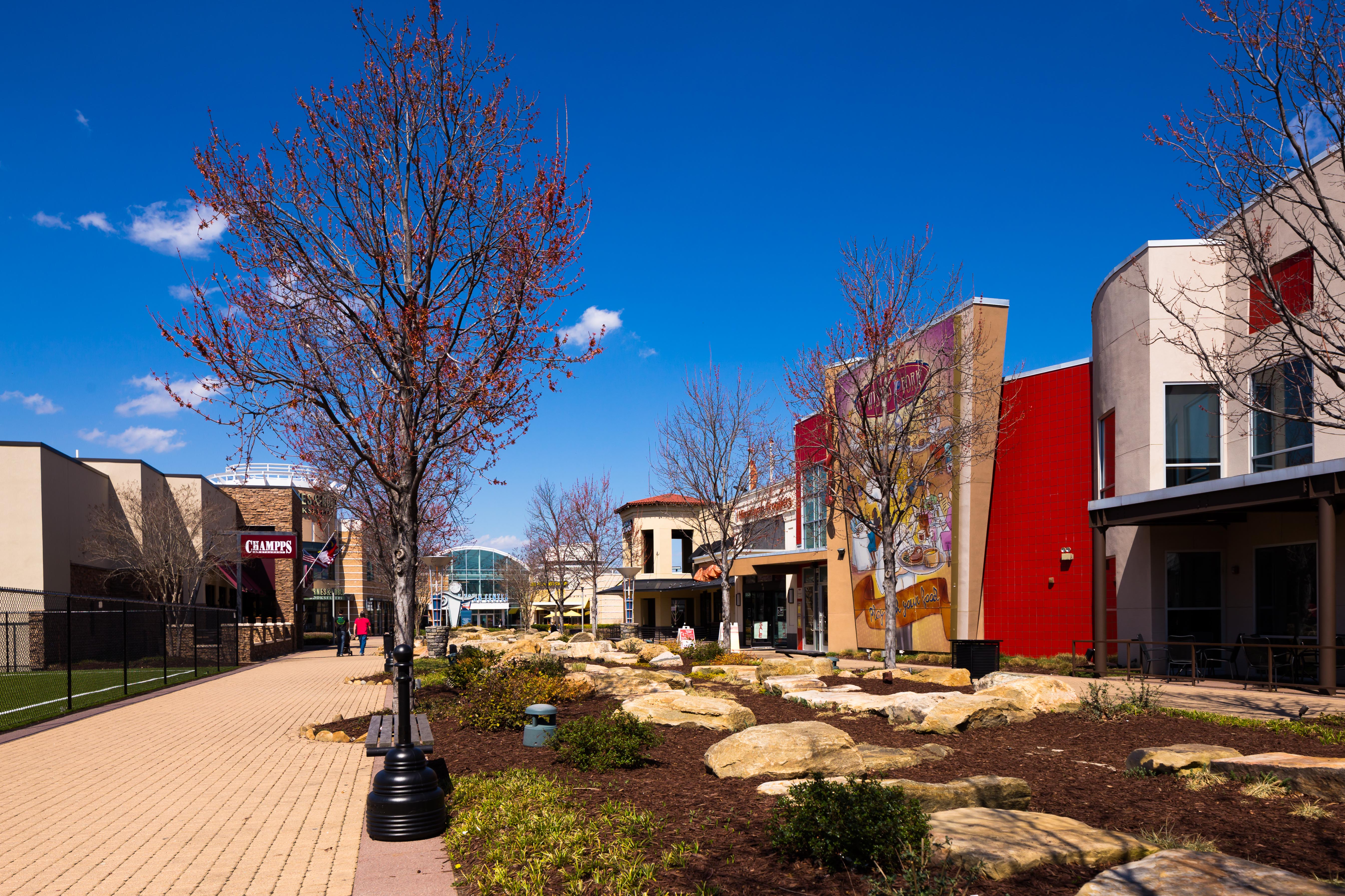 The Commons at Triangle Town Center in Raleigh, NC. Taken April 2013 using a Canon 6D with Canon TS-E 24mm f/3.5L II lens.